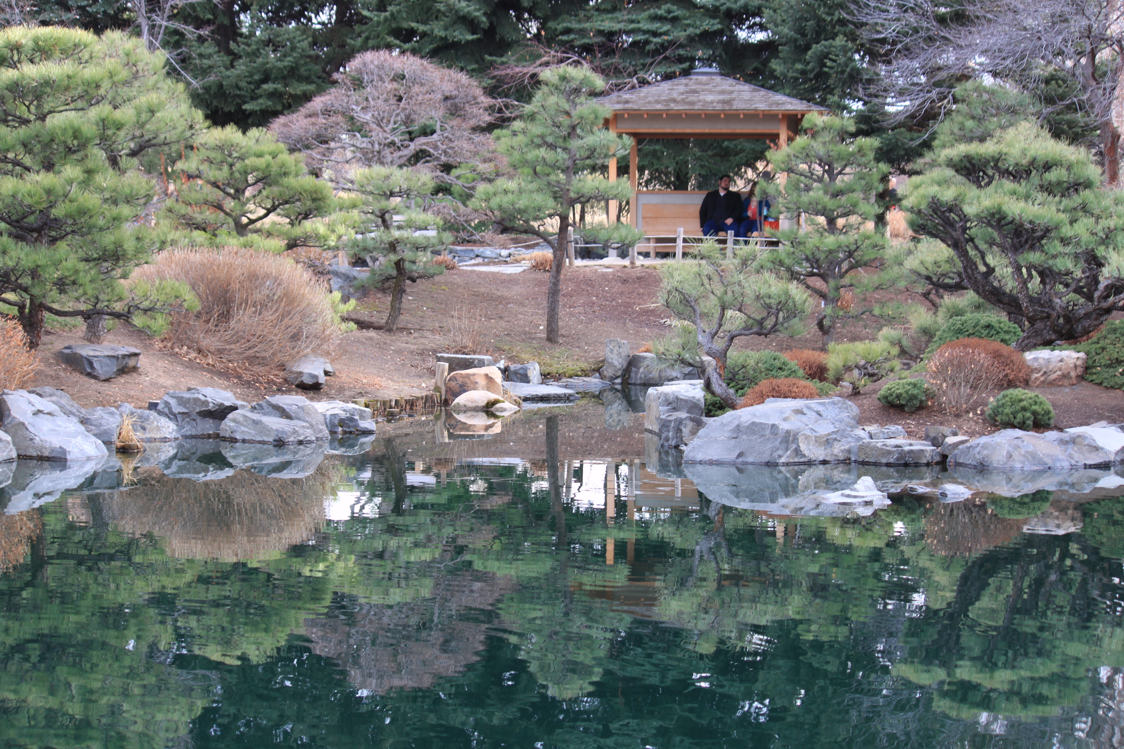 The Japanese Garden at the Denver Botanic Gardens